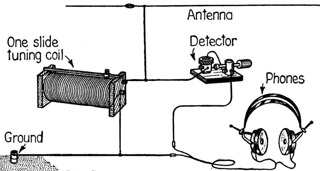 Crystal radio wiring pictorial based on Figure 33 in Gernsback's 1922 book "Radio For All" (copyright expired) with 'Aerial' changed to Antenna by me.